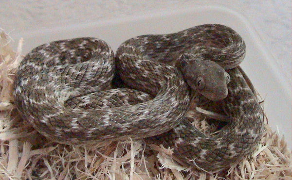 Photographer: User:Dawson